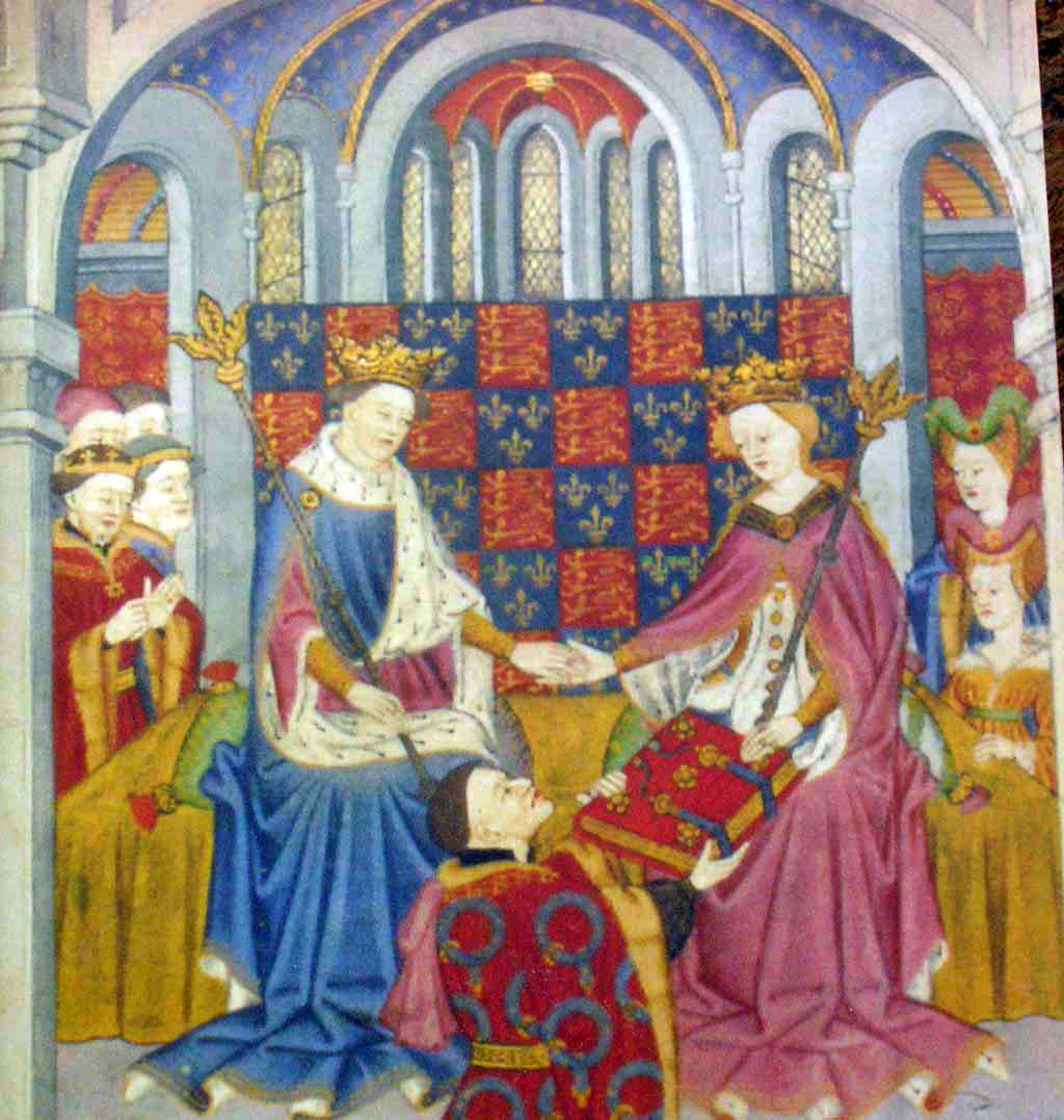 John Talbot, 1st Earl of Shrewsbury, presents the Book of Romances (Shrewsbury Book) to Margaret of Anjou, wife of King Henry VI